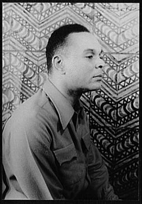 Title: Portrait of Chester Himes Abstract/medium: 1 photographic print : gelatin silver.